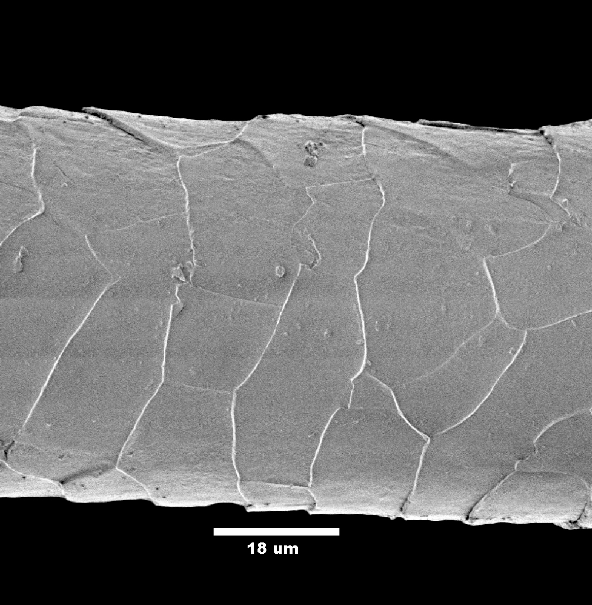 Scanning electron microscope image of a mohair fibre